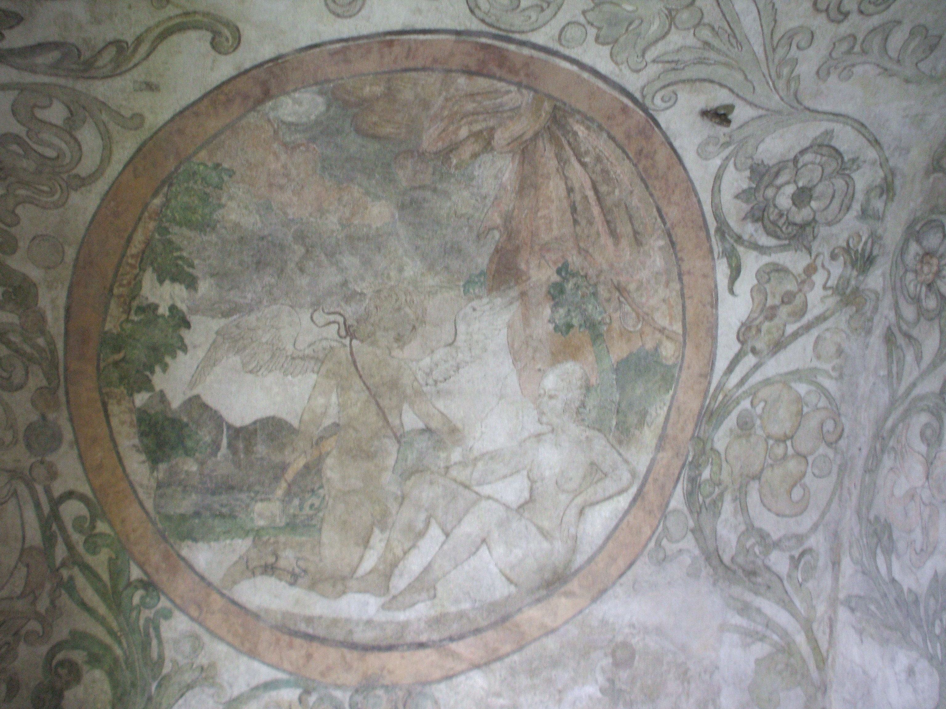 One of the XVI- century paintings in the old winery in Lublin.